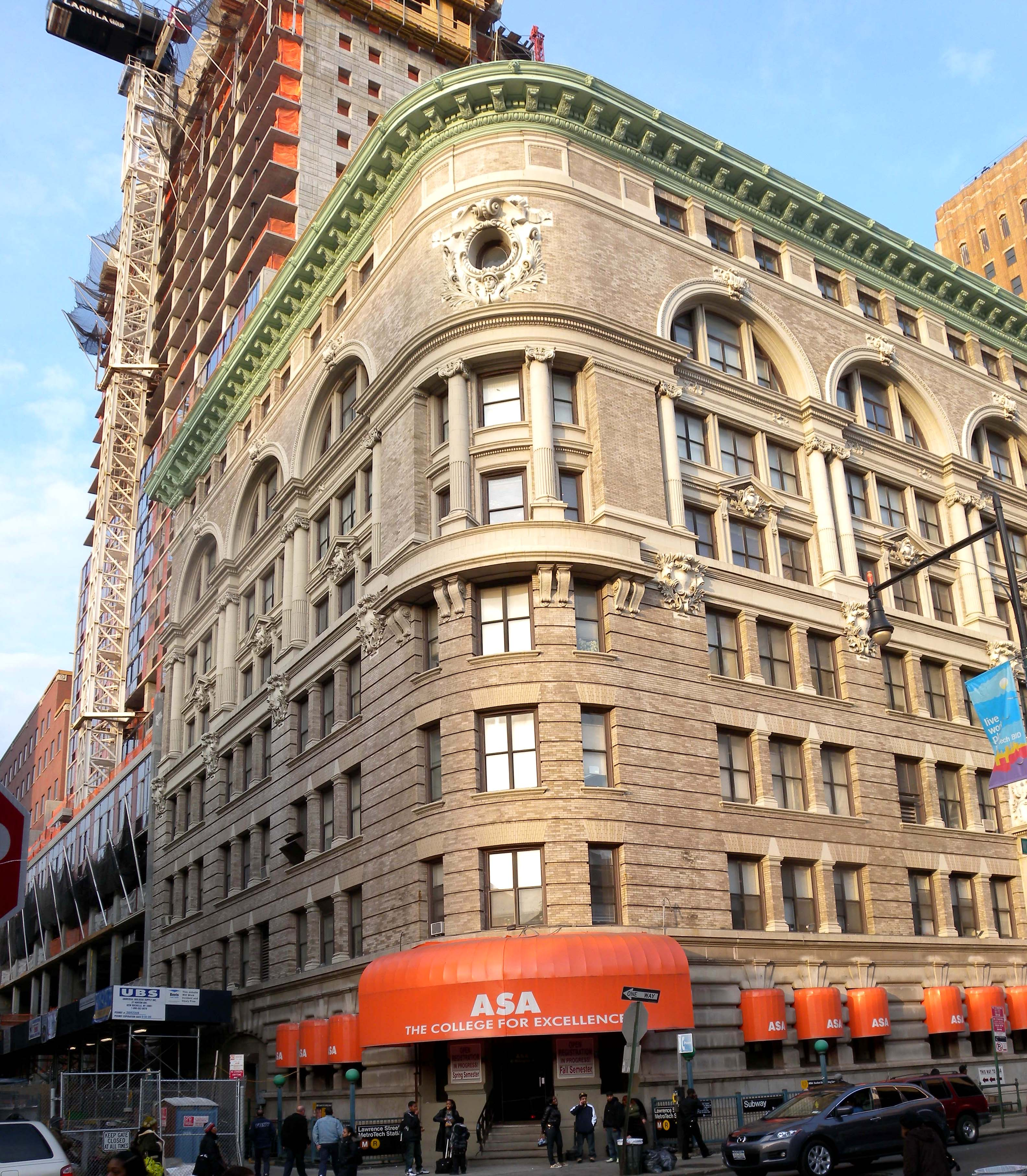 Looking northeast across Willoughby and Lawrence Streets at New York and New Jersey Telephone and Telegraph Company HQ on a sunny late afternoon. NYCLPC designated 2004.